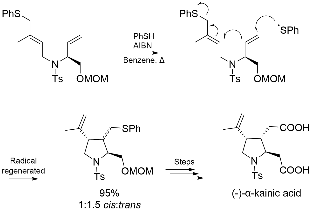 Thiyl radicals are used to induce the cyclization of two alkenes, which establishes the backbone of kainic acid.